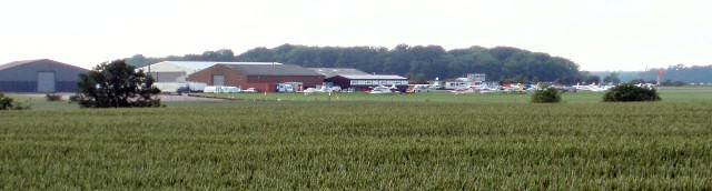 Turweston Airfield from the Westbury Circular Ride